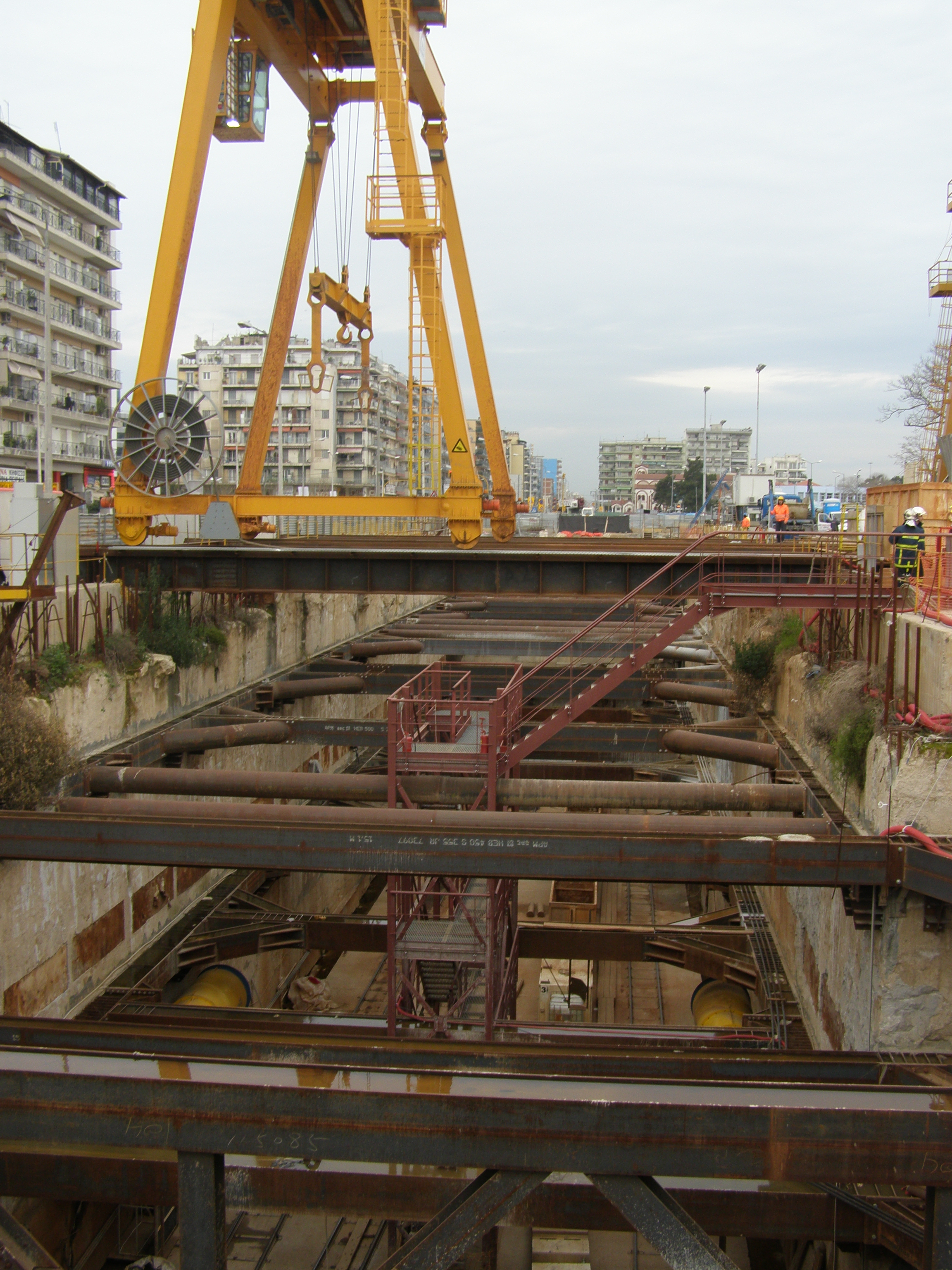 Construction site of Thessaloniki's Metro.